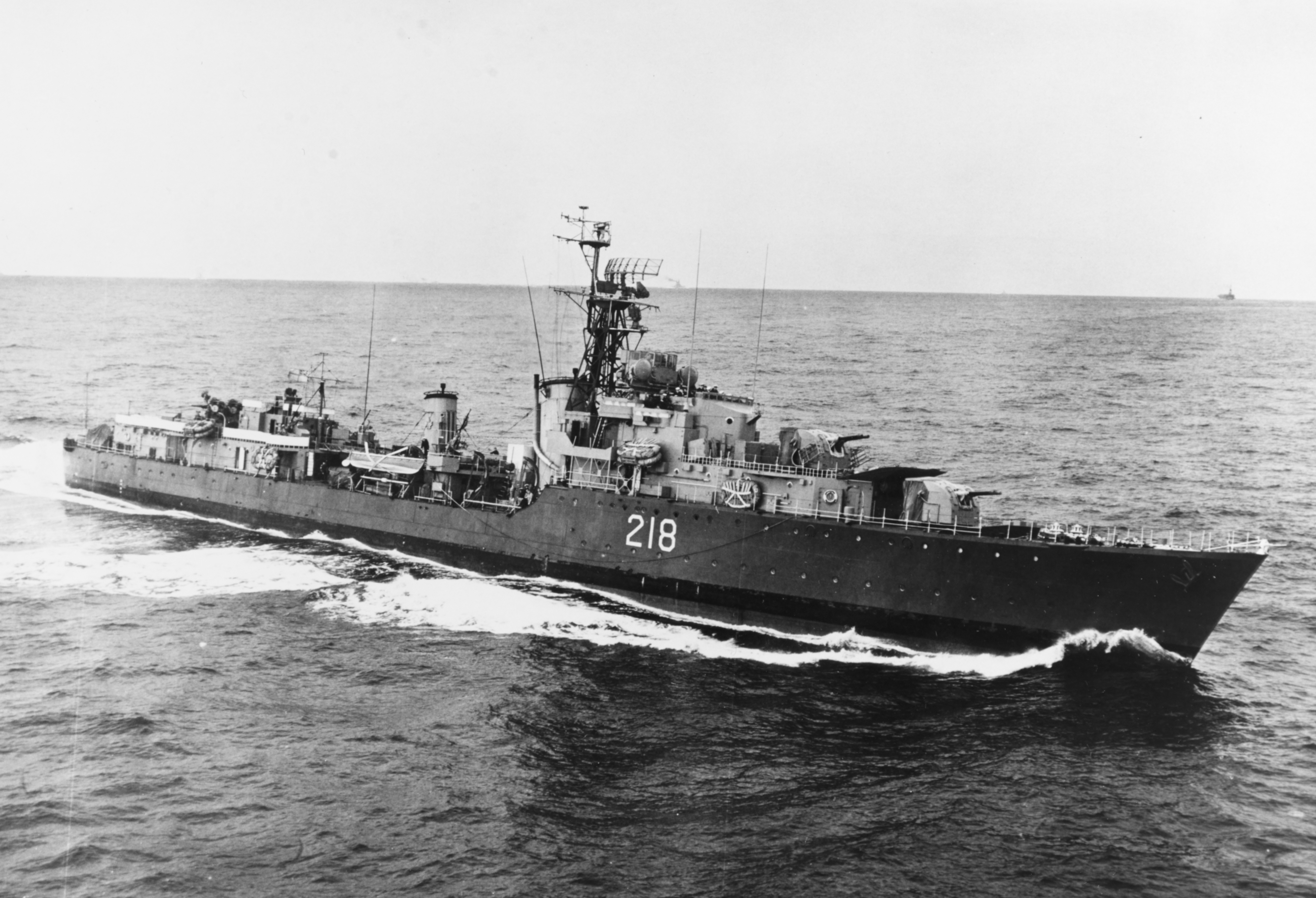 Title: HMCS CAYUGA (Canadian destroyer, 1945) Caption: Underway off Korea, on 3 March 1954. Catalog #: 80-G-642748 Copyright Owner: National Archives Original Date: Wed, Mar 03, 1954